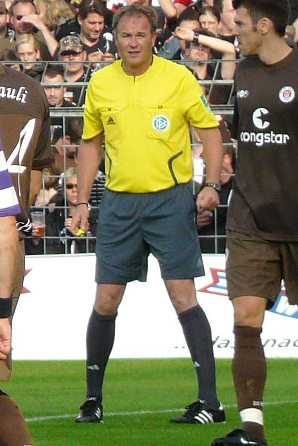 Dr.Helmut Fleischer Referee